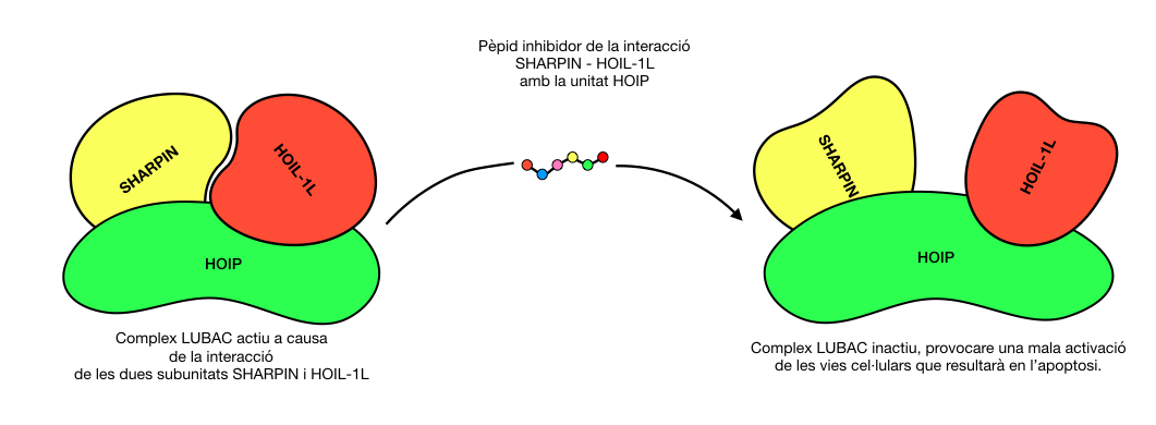 El comple LUBAC actiu pot ser inhibit mitjançant un pèptid específic que provoca una desestabilitat entre les subunitats HOIL-1L i SHARPIN que pot ocasionar una mala activació de les vies metabòliques intermediades pel complex i, conseqüentment l'apoptosi cel·lular.